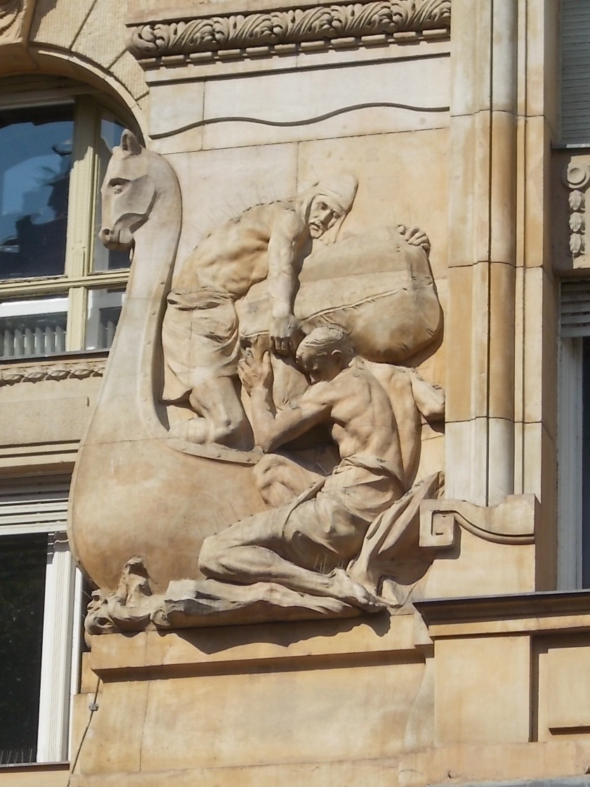 Relief of the National Bank of Hungary - Phoenician, Egyptian, Jewish-Arab commerce, (1900s, 1904 or 1905?) relief series. On the south facade the 2nd one from right. - #8-9, Szabadság Square, Lipótváros neighbourhood, Budapest District V.